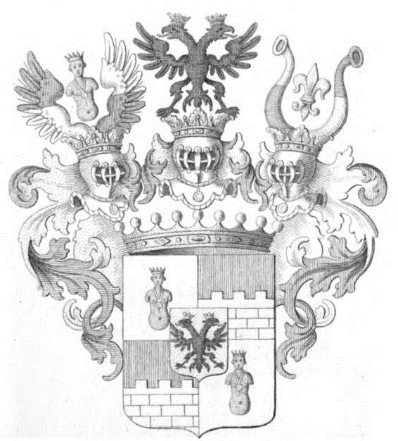 Wappen Morzin - Tyroff HA.jpg